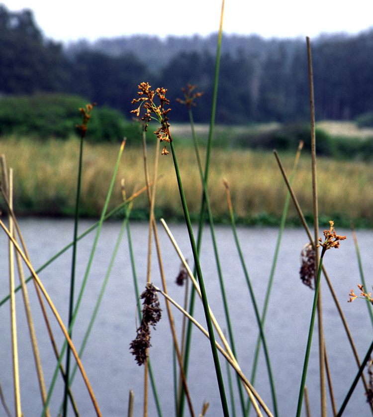 Schoenoplectus acutus at Humboldt Bay National Wildlife Refuge Complex, California, USA